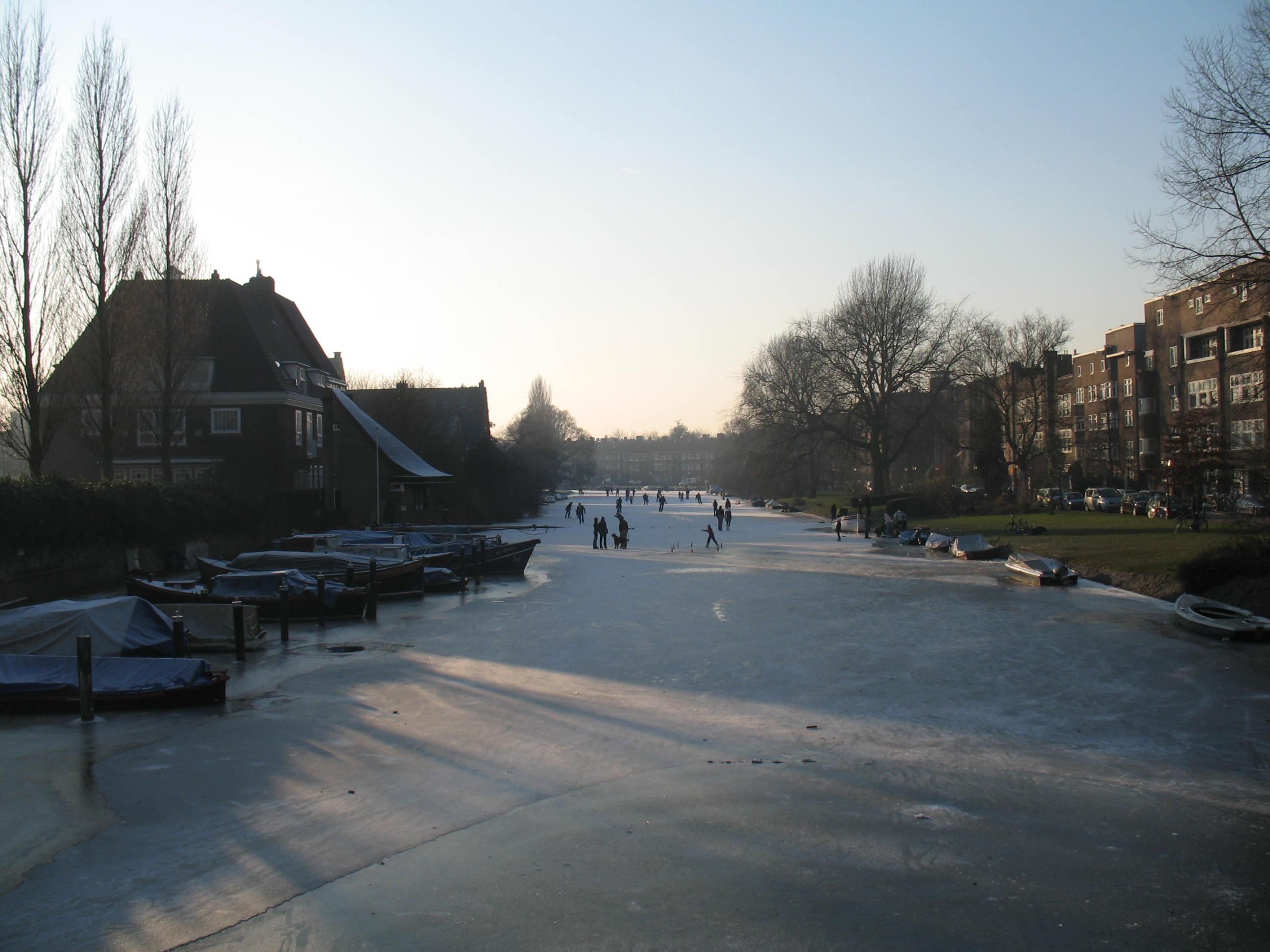 A frozen Noorderamsterkanaal in Amsterdam, as seen from the bridge behind the Amsterdams Lyceum, looking South West.